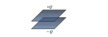 Capacitor plano